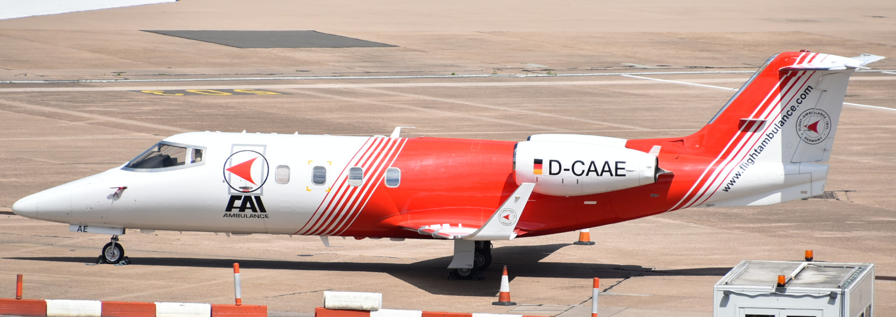 Learjet 55 of FAI Rent-a-Jet at Birmingham-BHX,18/07/16.